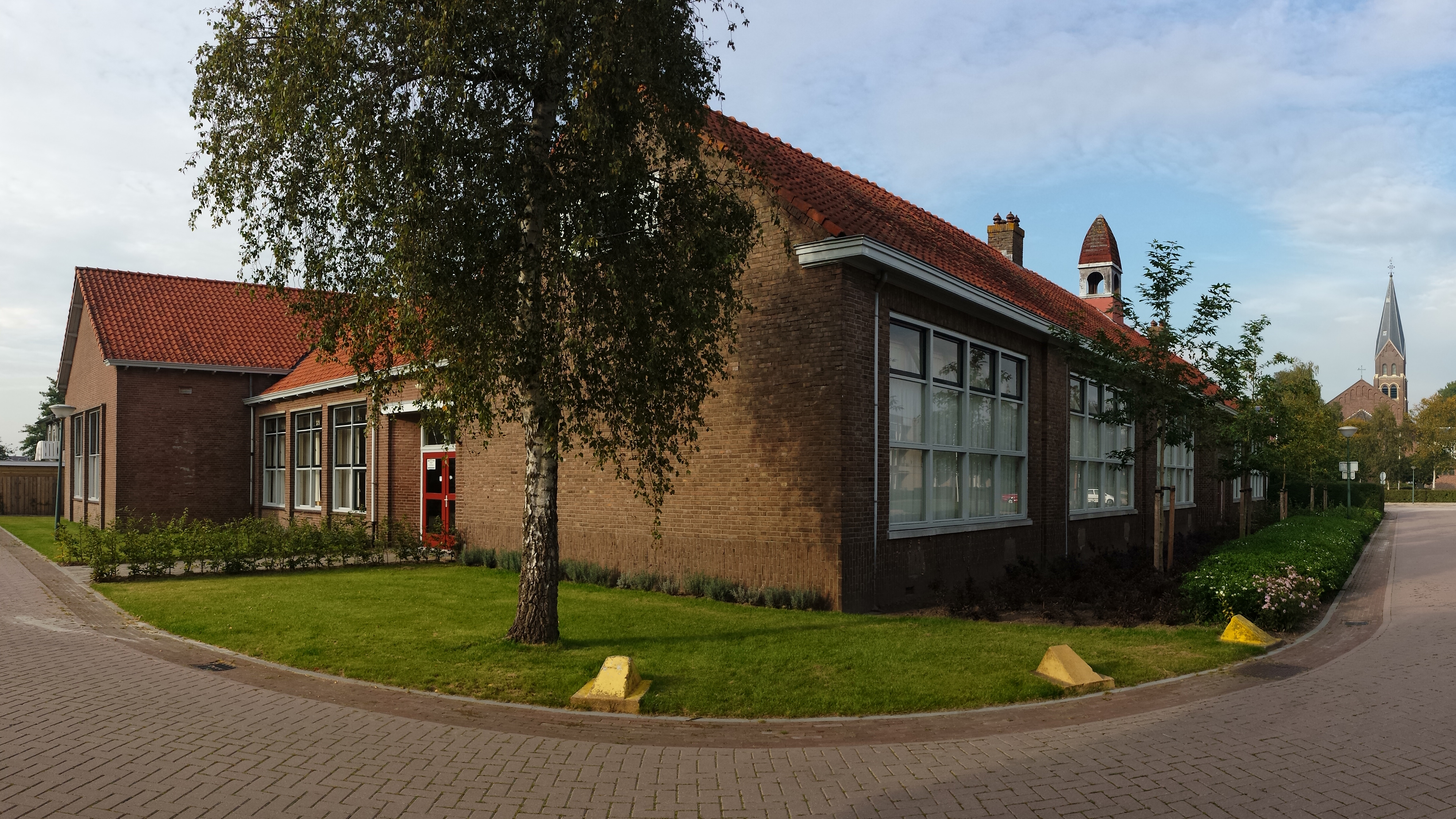 Town of Joure, former Sint Bonifatiusschool from the 1920s. Catholic primary school. Since the 1990s a costume deposit.